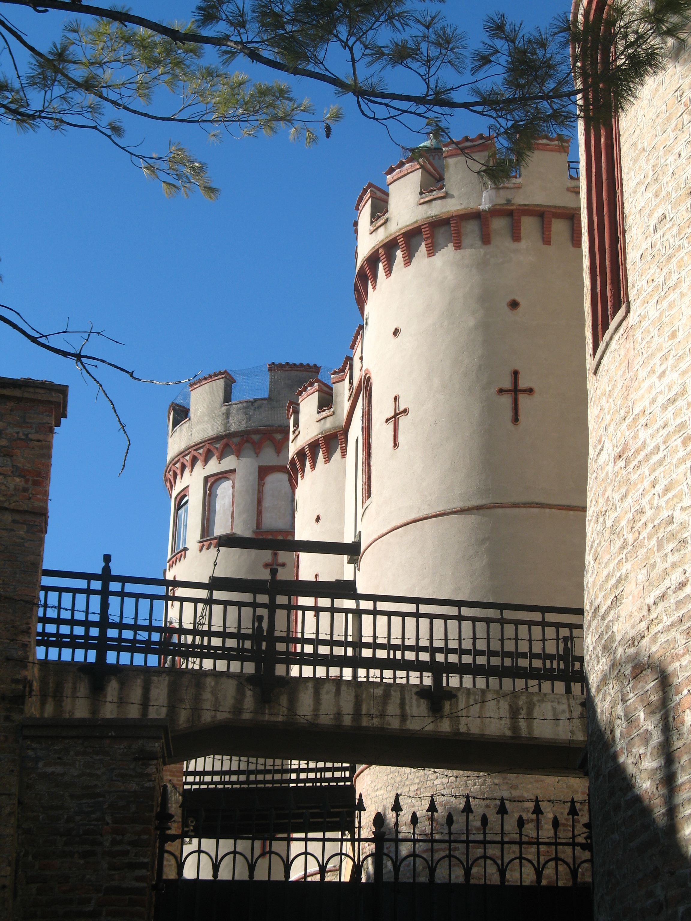 Bridges in the caste of Costigliole d'Asti (Piedmont, Italy).